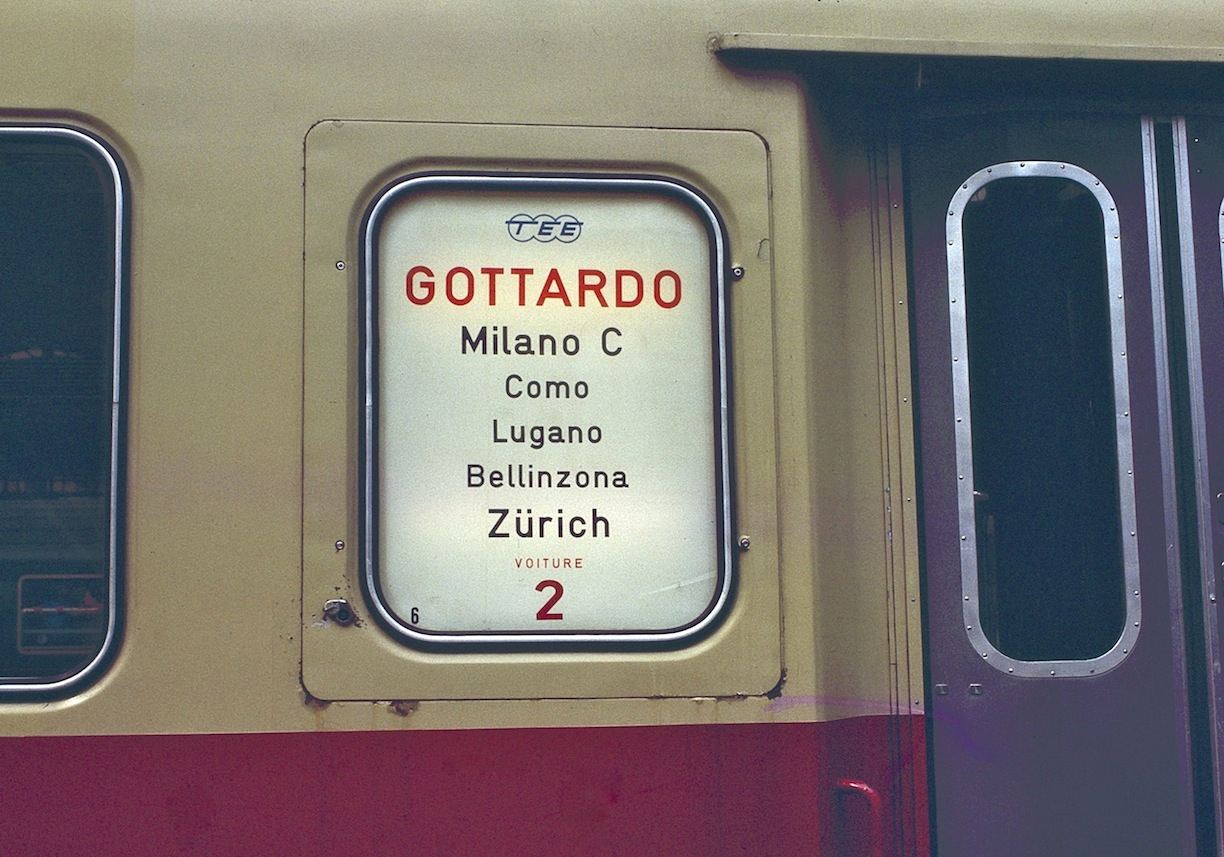 Sign on the side of car 2 of the Trans-Europe Express Gottardo is a roll-type sign (commonly called a "rollsign" in American English; "indicator blind" in British English), illuminated from behind. Photo taken at Milano Centrale station. A stop at Bellinzona was added to the route of the Gottardo in 1979.